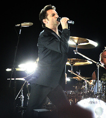 Dave Gahan from Depeche Mode